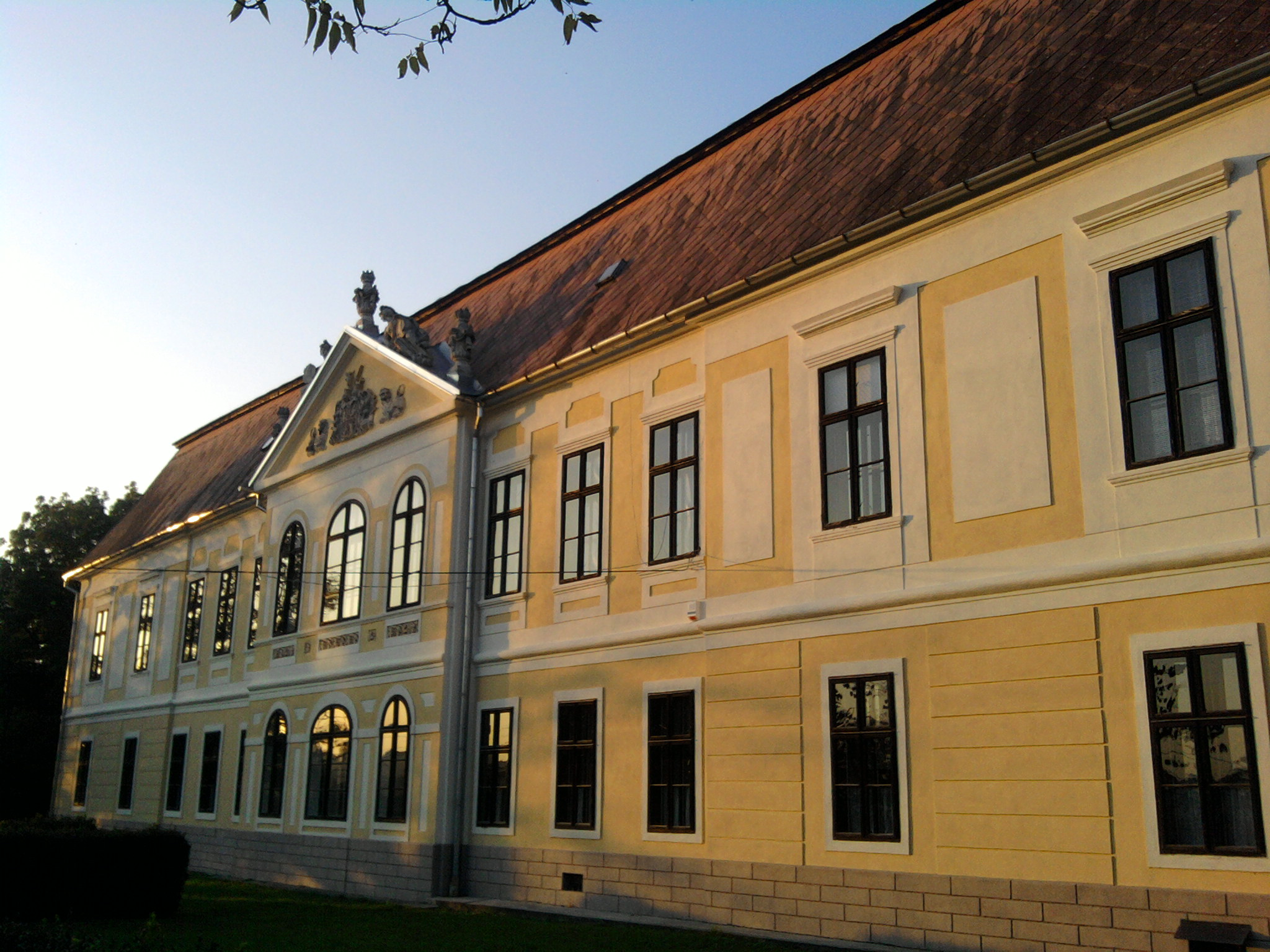 Manor in Plášťovce